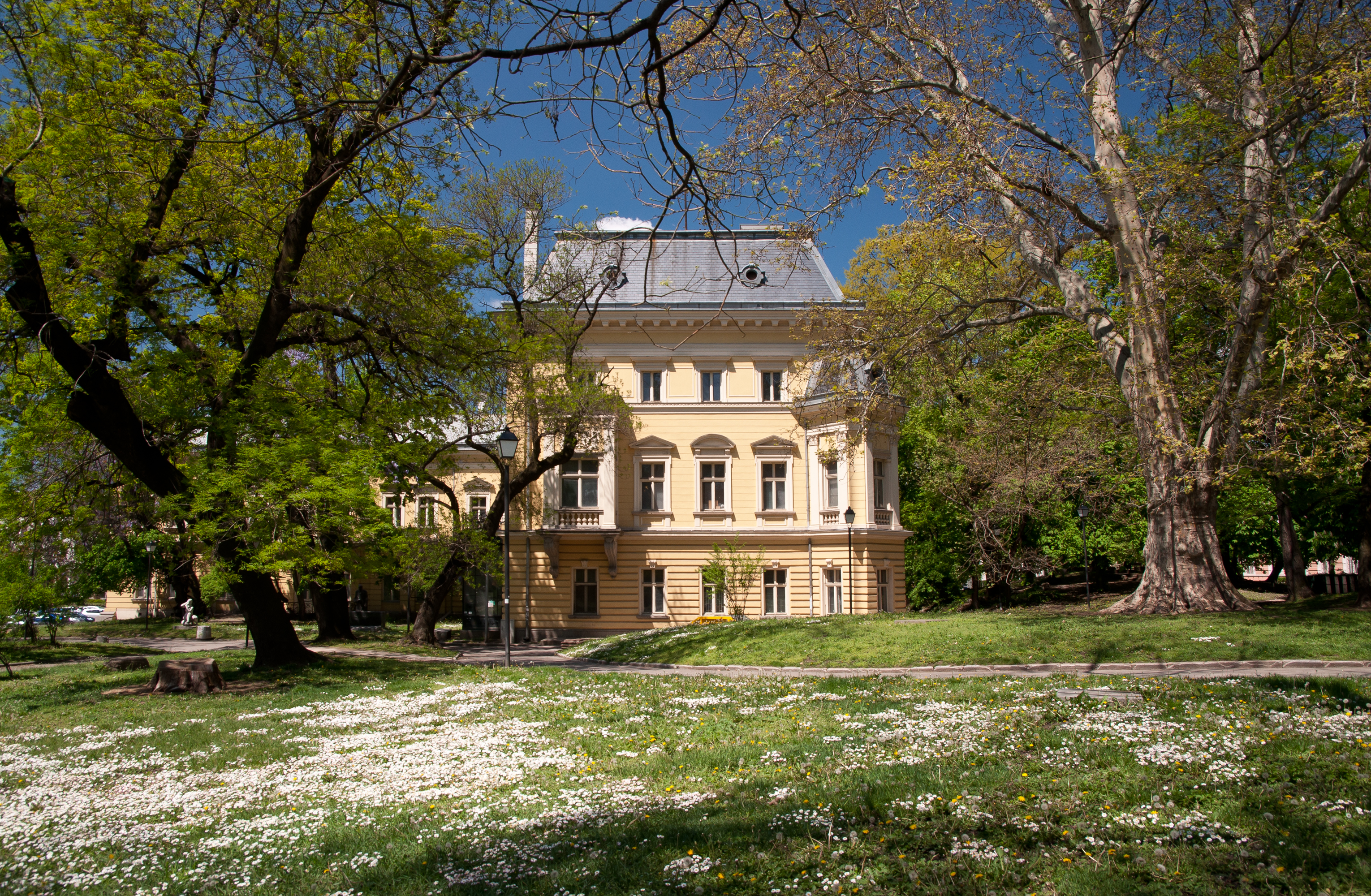 The Royal Palace Garden, Sofia. Eastern wing of the palace (now National Art Gallery) is seen in the background.